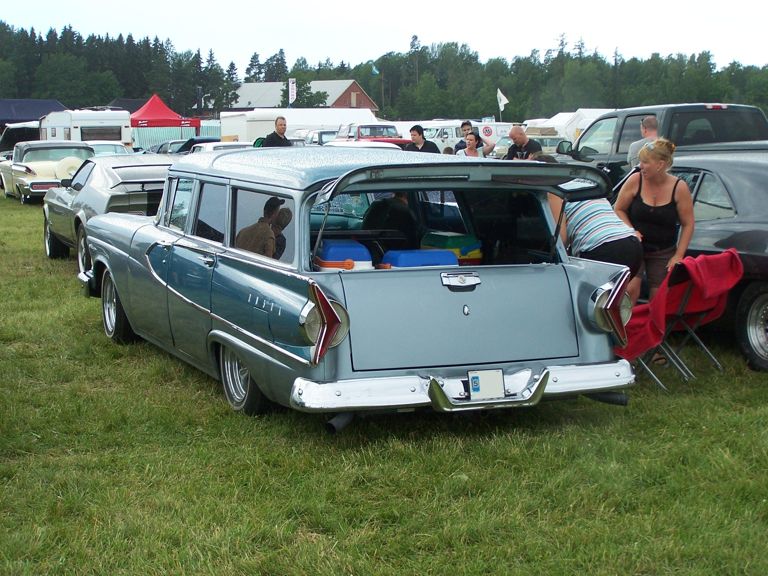 1958 Edsel Villager 4-door station wagon at Power Big Meet 2009, Västerås, Sweden